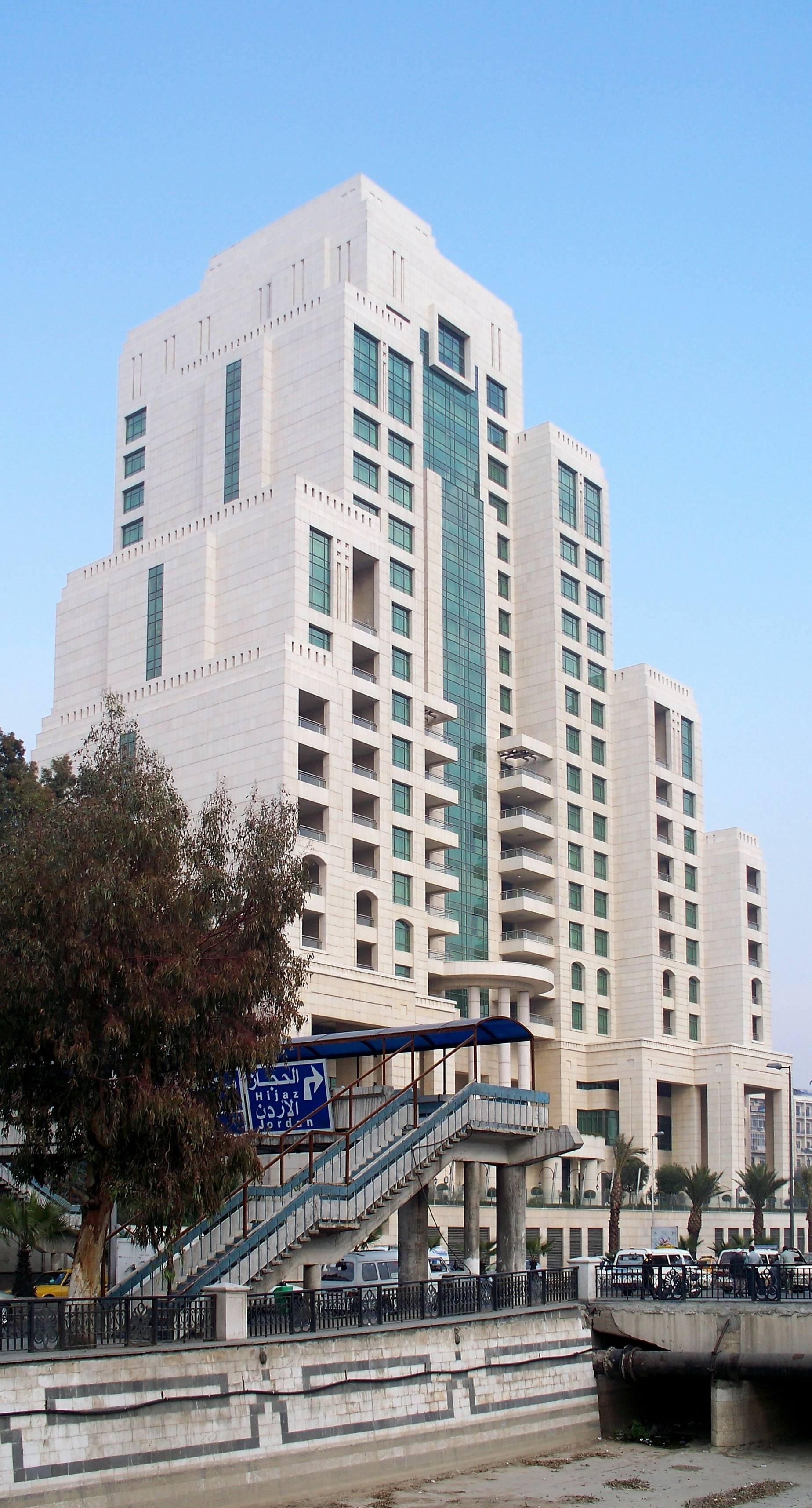 The Four Seasons Hotel in Damascus, Syria.